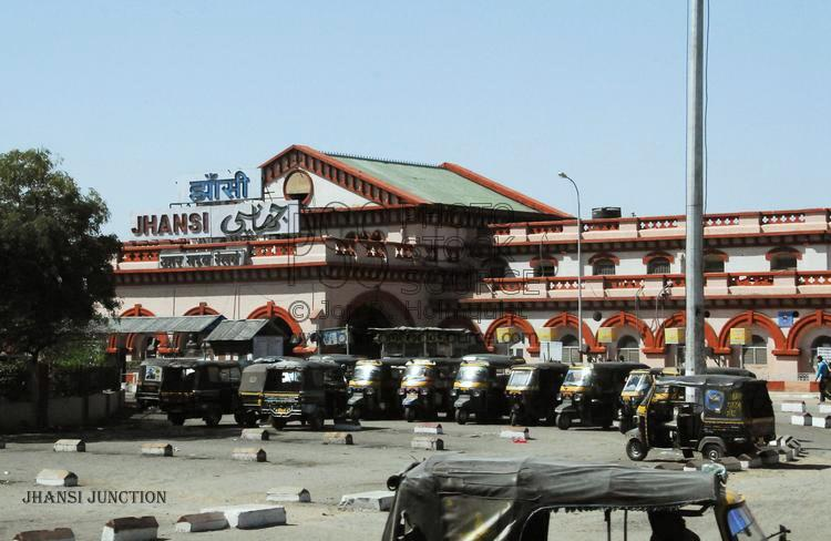 This is the actual and authentic pic of Jhansi Junction.